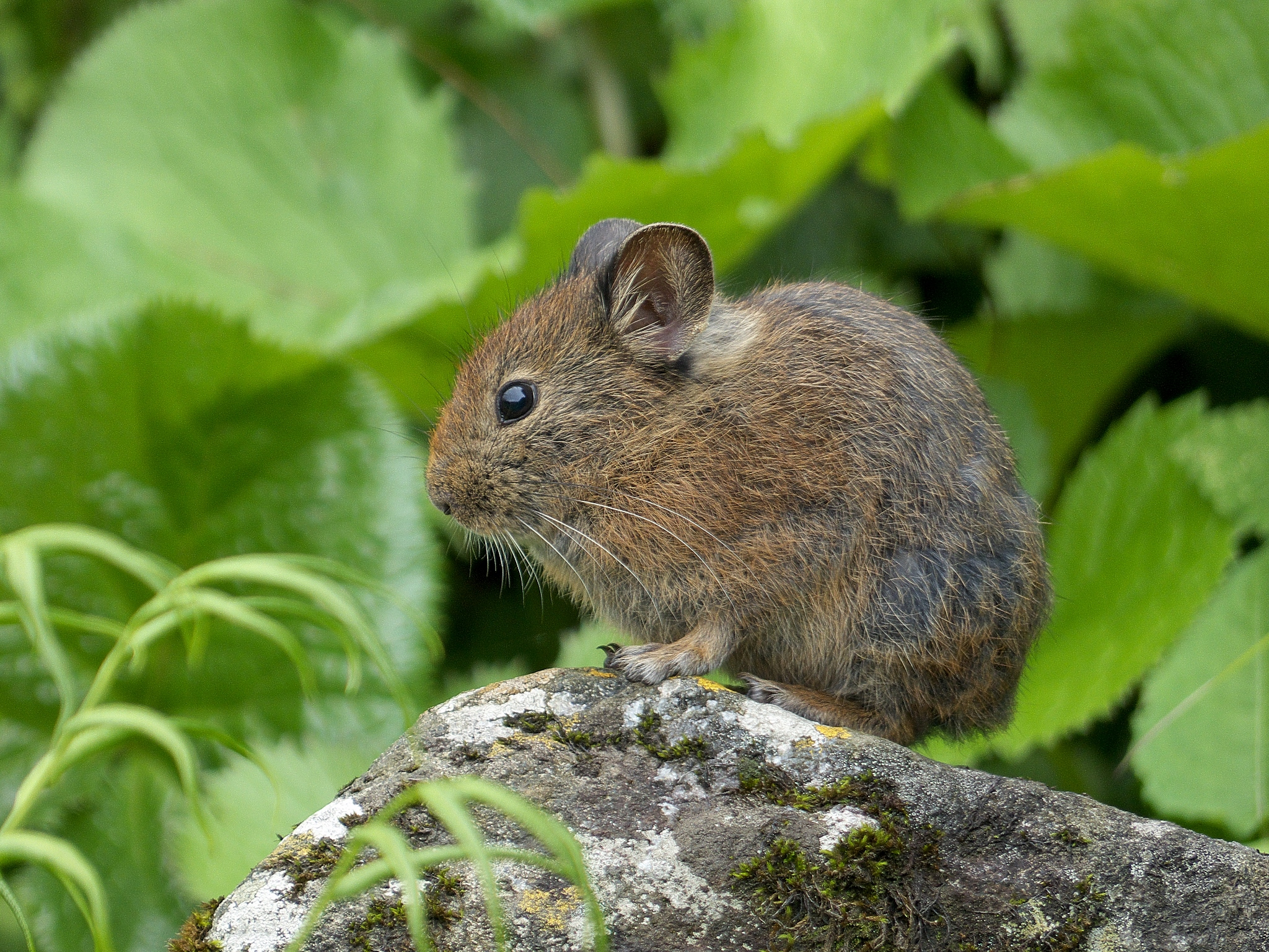 A dwarf species of the rabbit, this is found in the Higher Himalayan region usually at altitude above 2500 m. This one is from the Nanda Devi Biosphere in Uttarakhand, India